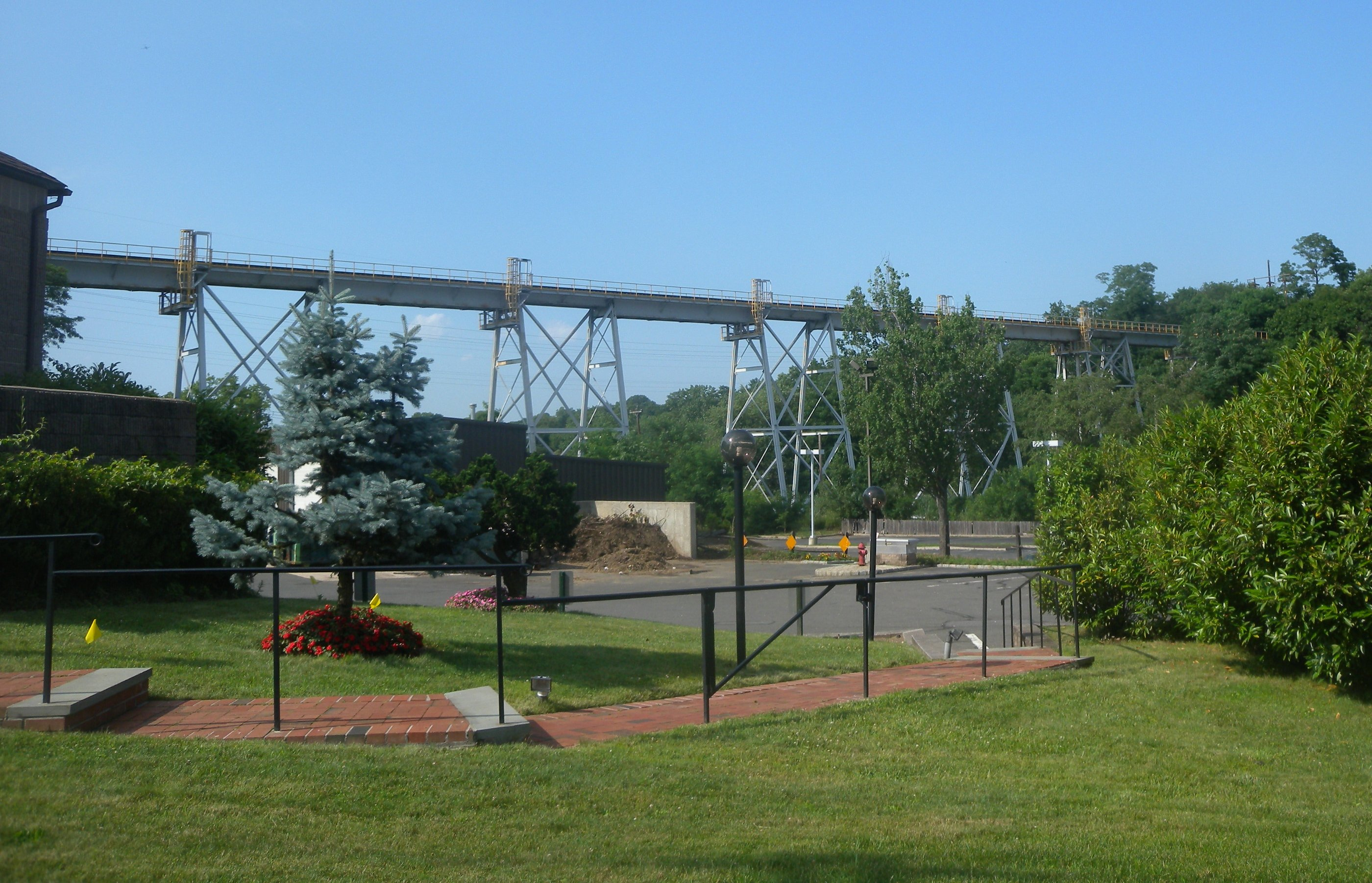 Looking northeast at Manhasset LIRR trestle on a sunny afternoon.